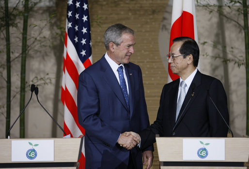 President George W. Bush and Prime Minister Yasuo Fukuda shake hands after their joint press availability at the Windsor Hotel Toya Resort and Spa in Tōyako Town, Abuta District, Hokkaidō on July 6, 2008.